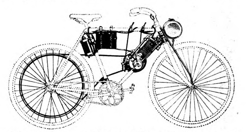 Drawing of a Gerrard Motor Set fitted to a bicycle